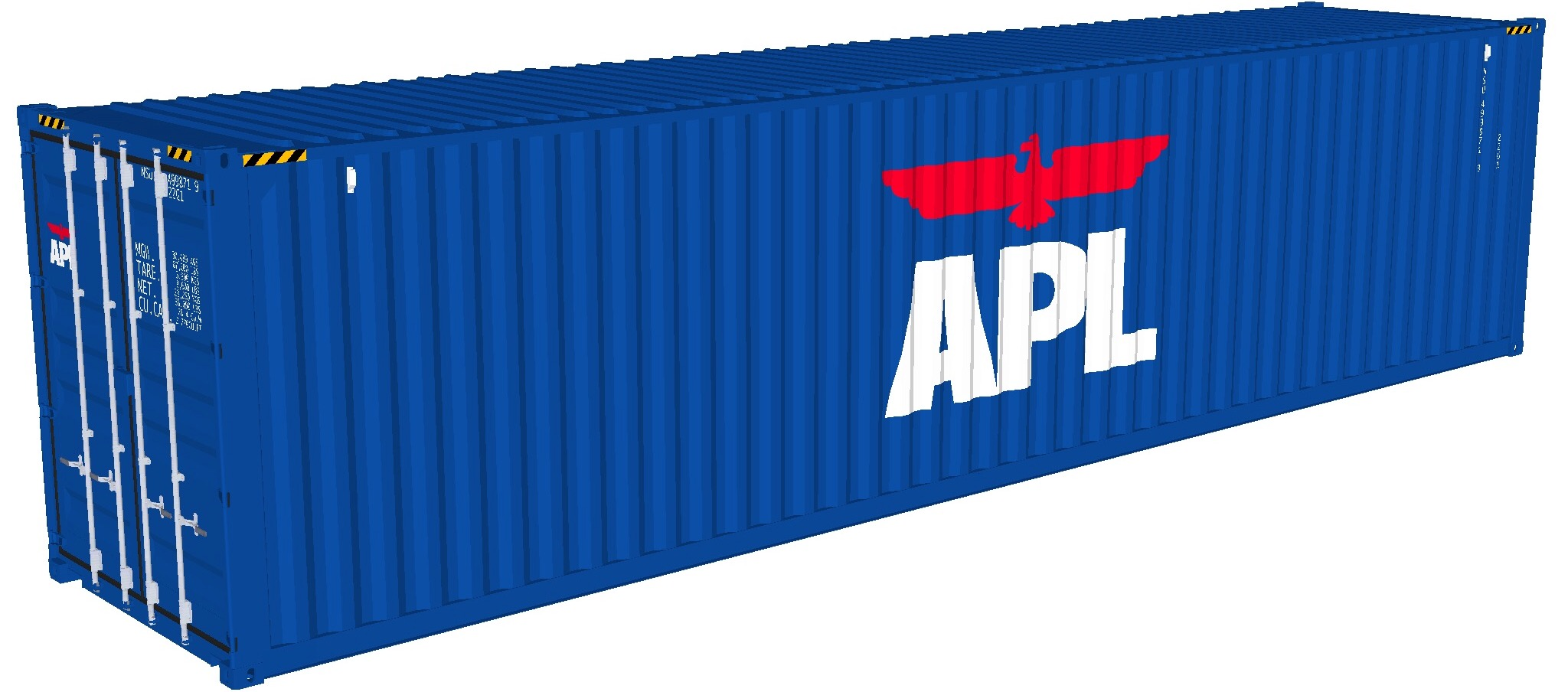 APL container